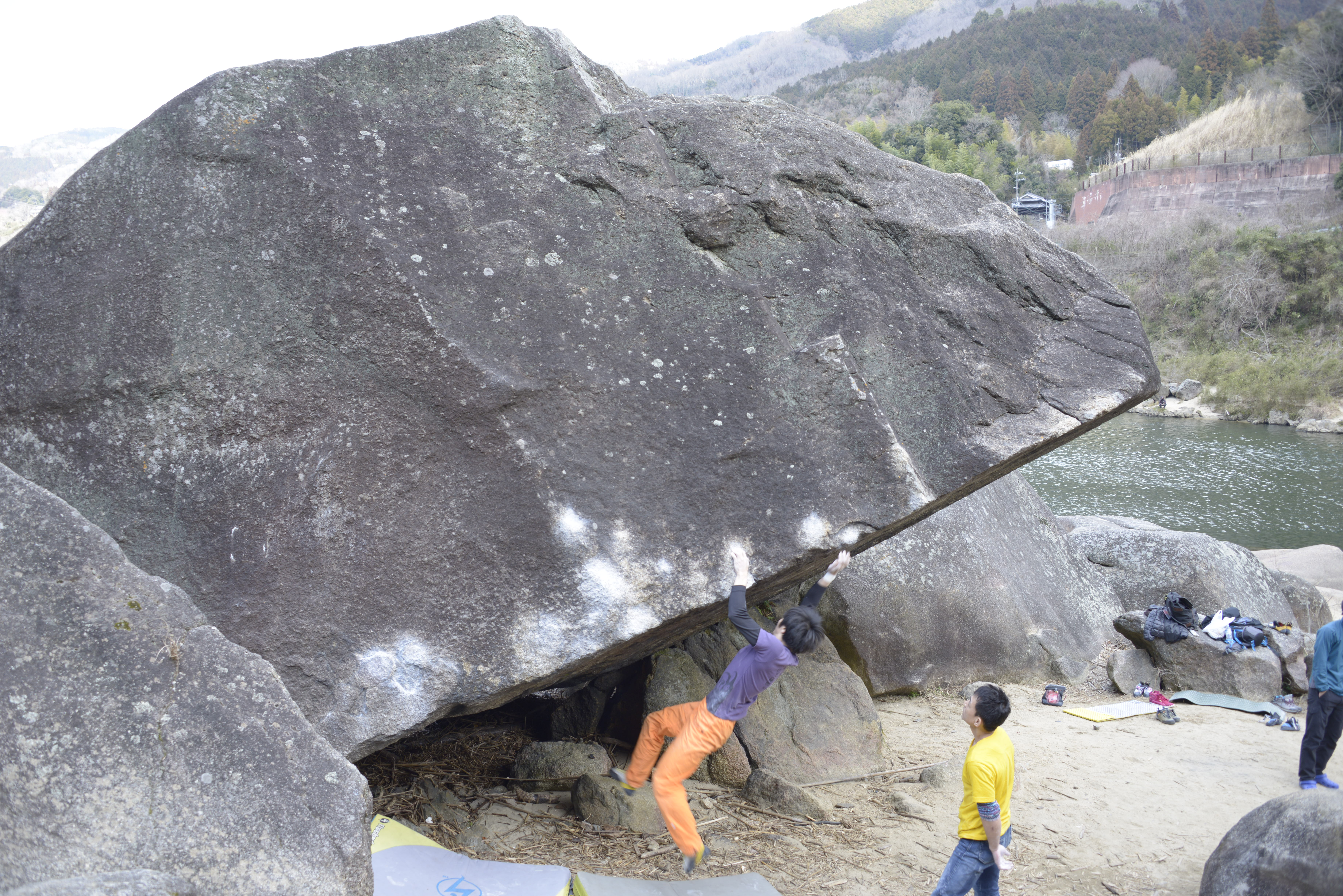 kasagi,kyoto